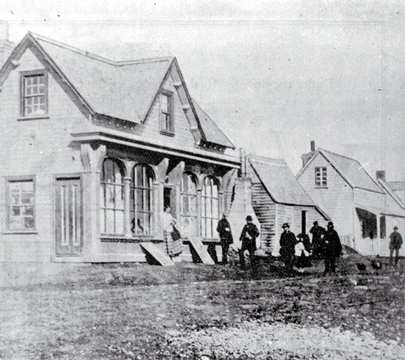 The Canterbury Standard Office, Hereford Street west, Christchurch. In the source, it says that the photo was taken in 1900. The photo is also printed in a book (Rolleston, 1971) and there, it states that the photo was taken in 1861. The book is much more likely to be correct, as Oxford Terrace and Hereford Street would have long been sealed by 1900.